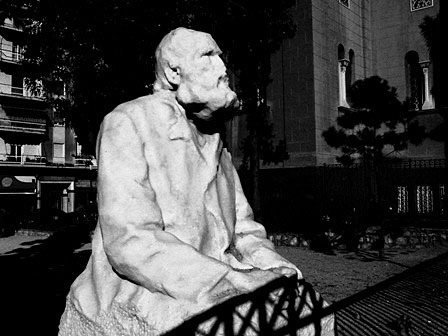 Beggar (1918)